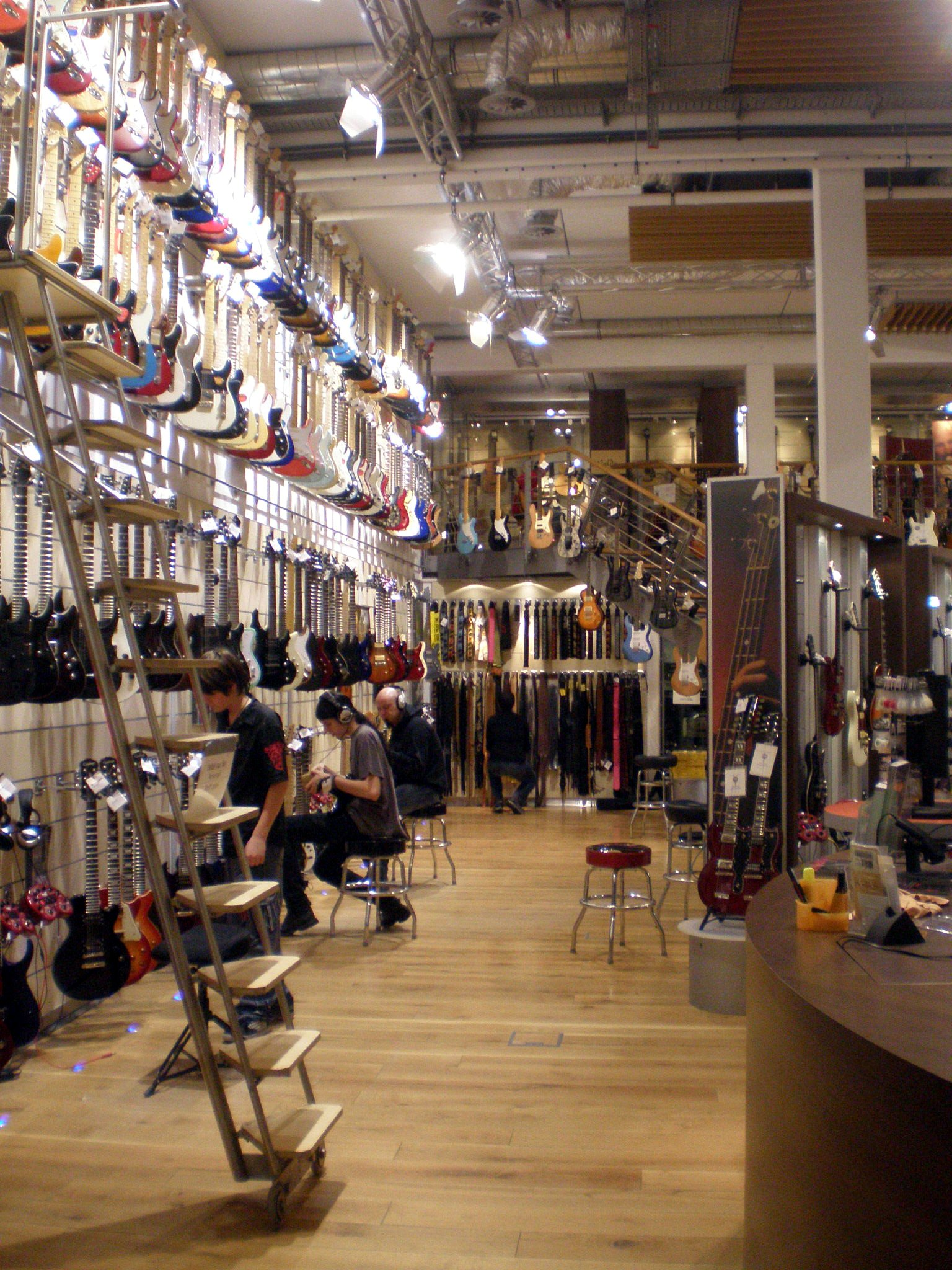 The guitar show room